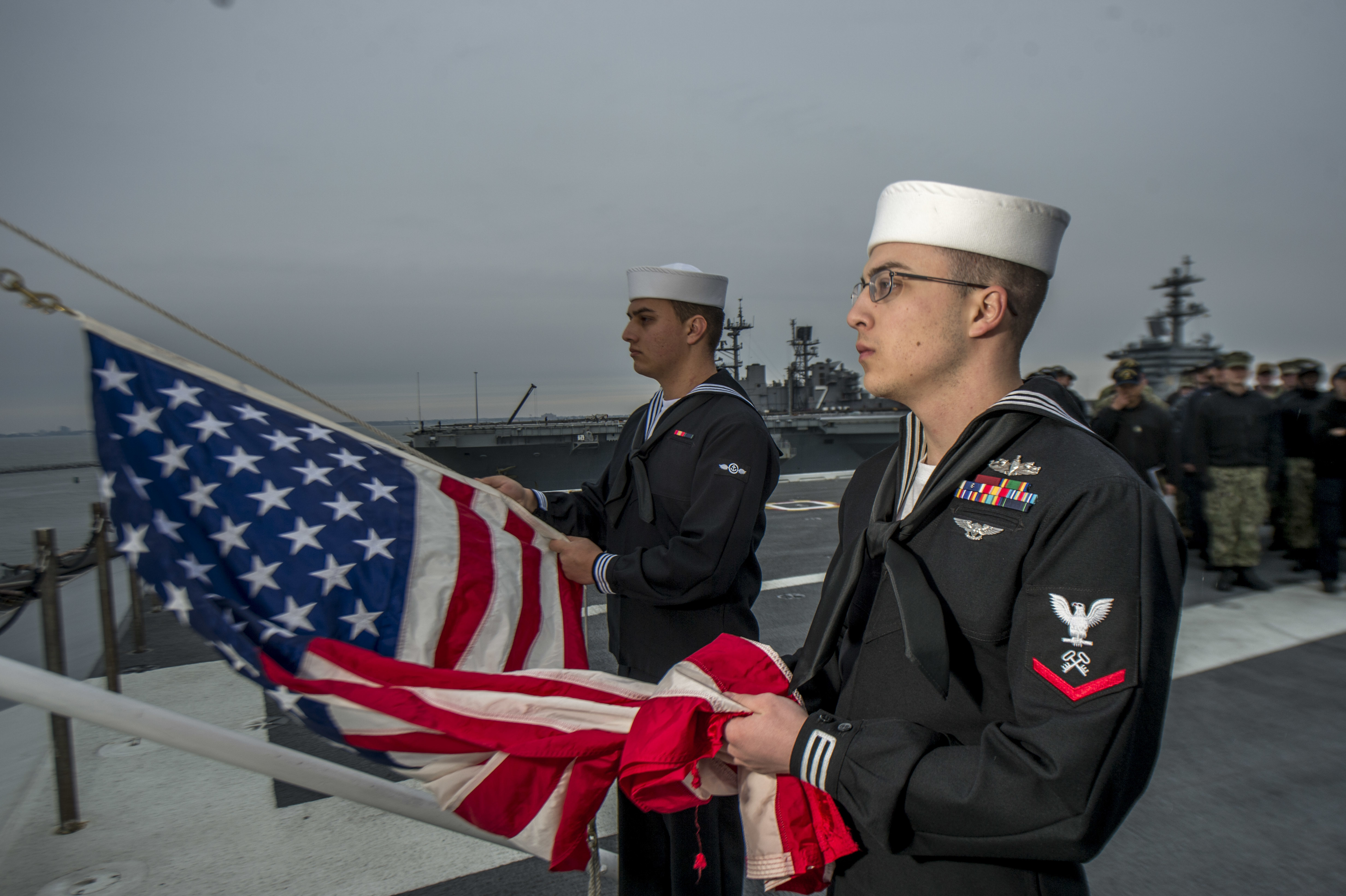 NORFOLK, Va. (Dec. 1, 2018) Logistics Specialist 3rd Class Logan Davidson, from Monaca Pennsylvania, right, and Aviation Boatswain’s Mate (Handling) Airman Recruit Gabriel Gonzalez, from Los Angeles, conduct morning colors on the flight deck aboard the aircraft carrier USS George H.W. Bush (CVN 77). The flag was flown at half-mast to honor the 41st President, George H.W. Bush, the ship’s namesake, who passed away Nov 30. The ship is in port in Norfolk, Virginia, conducting routine training exercises to maintain carrier readiness.